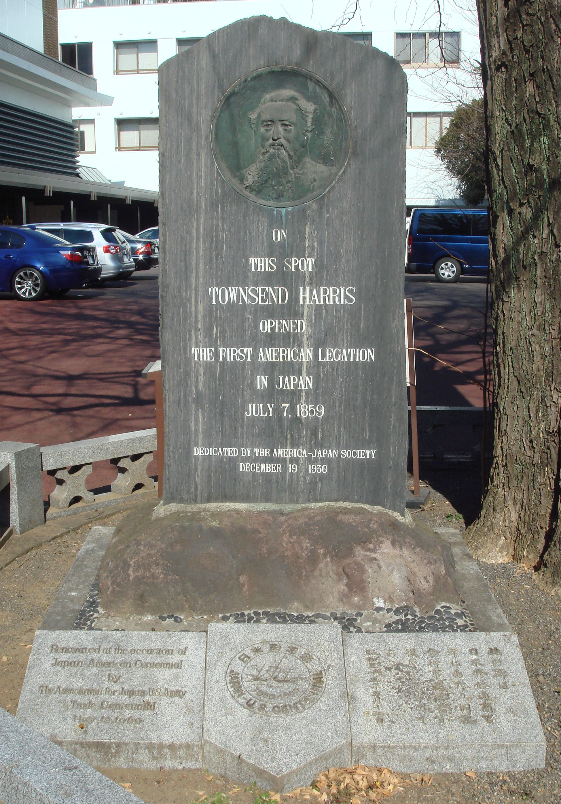 Townsend_Harris_monument_in_Zenpukuji.